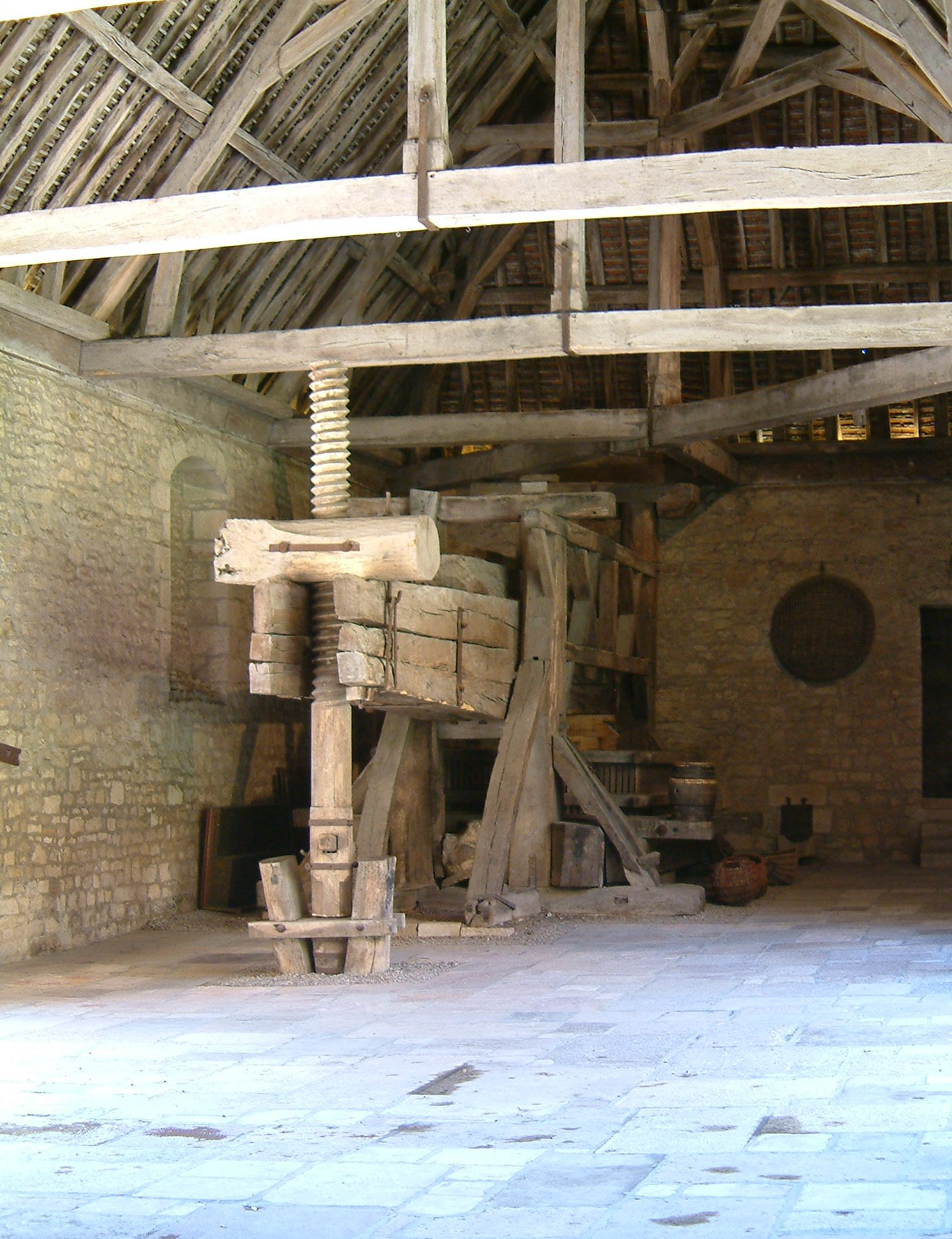 Clos de Vougeot, Vougeot, Burgundy, FRANCE.